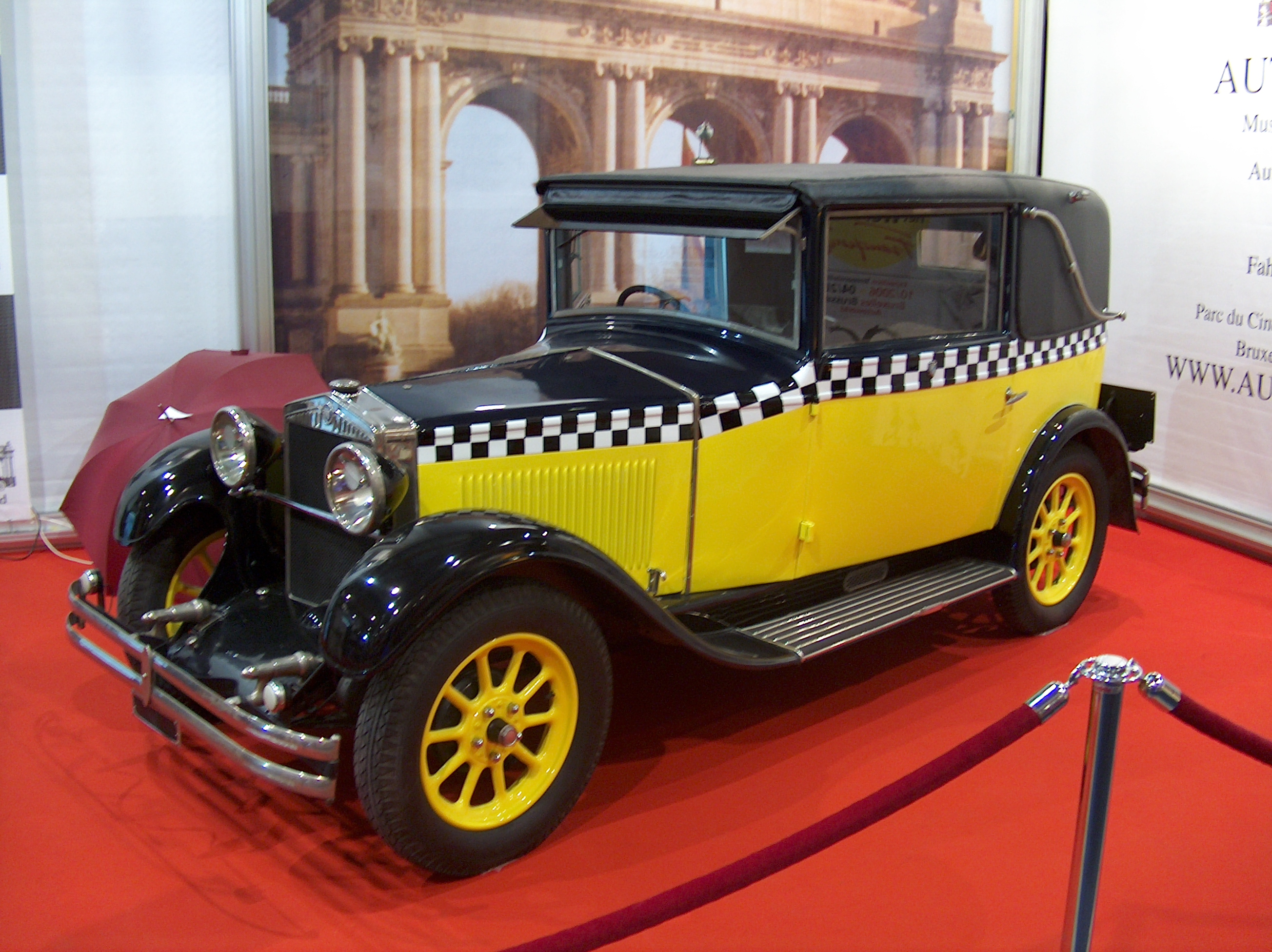 Fiat 509. Photo taken at the European Motor Show Brussels 2006, Belgium, 2006.